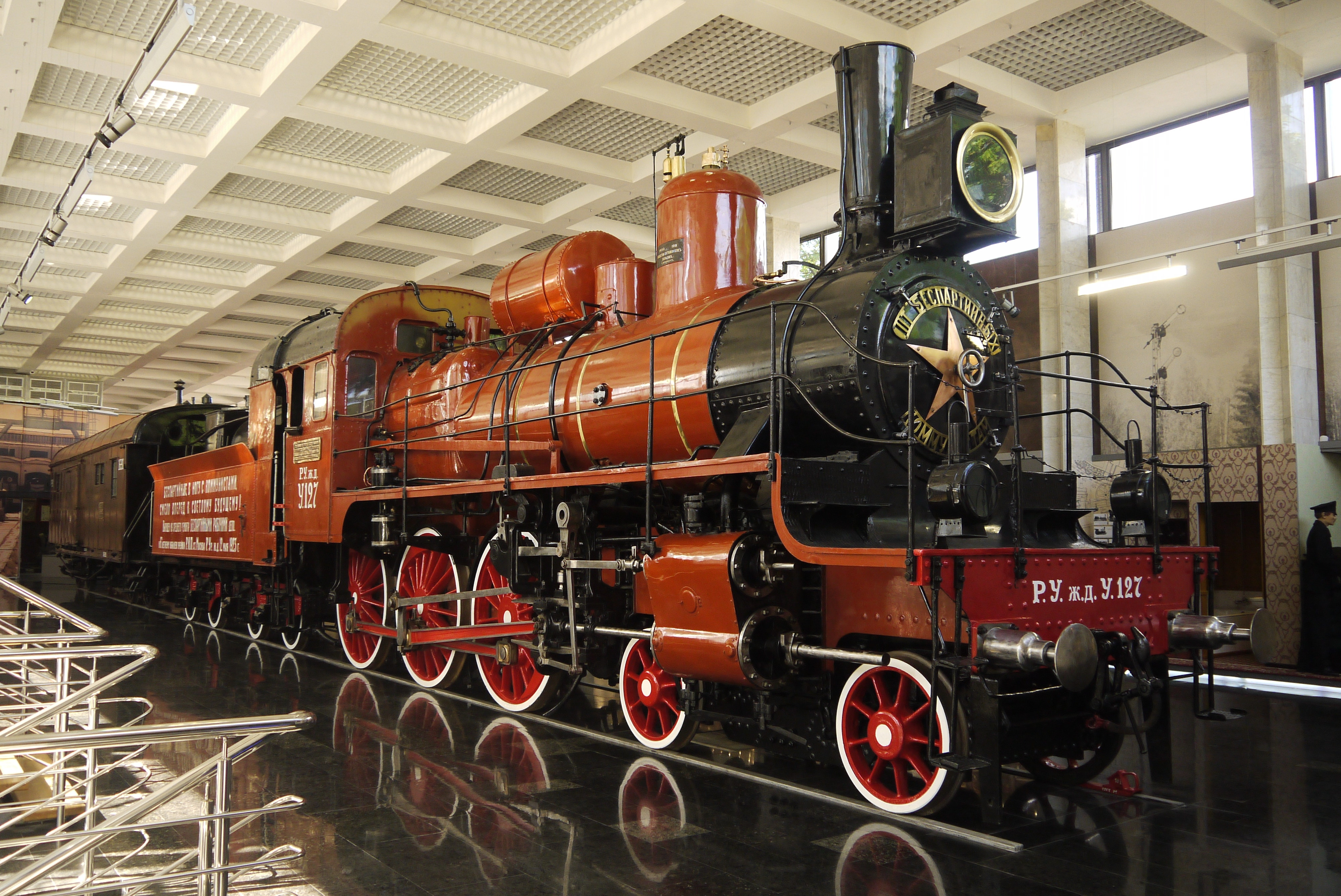 Russian Locomotive Class U number U127 (Lenin's Locomotive) at the Museum of the Moscow Railway located at Paveletsky Rail Terminal, Moscow